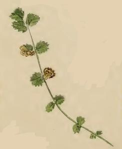 Stainton’s Natural History of the Tineina (1855–1873): Stigmella poterii a leaf of Poterium sanguisorba with several mined leaflets